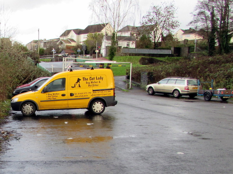 The Cat Lady van in a Bettws Lane car park, Newport The Cat Lady provides dog walker, pet sitter and pet taxi services.